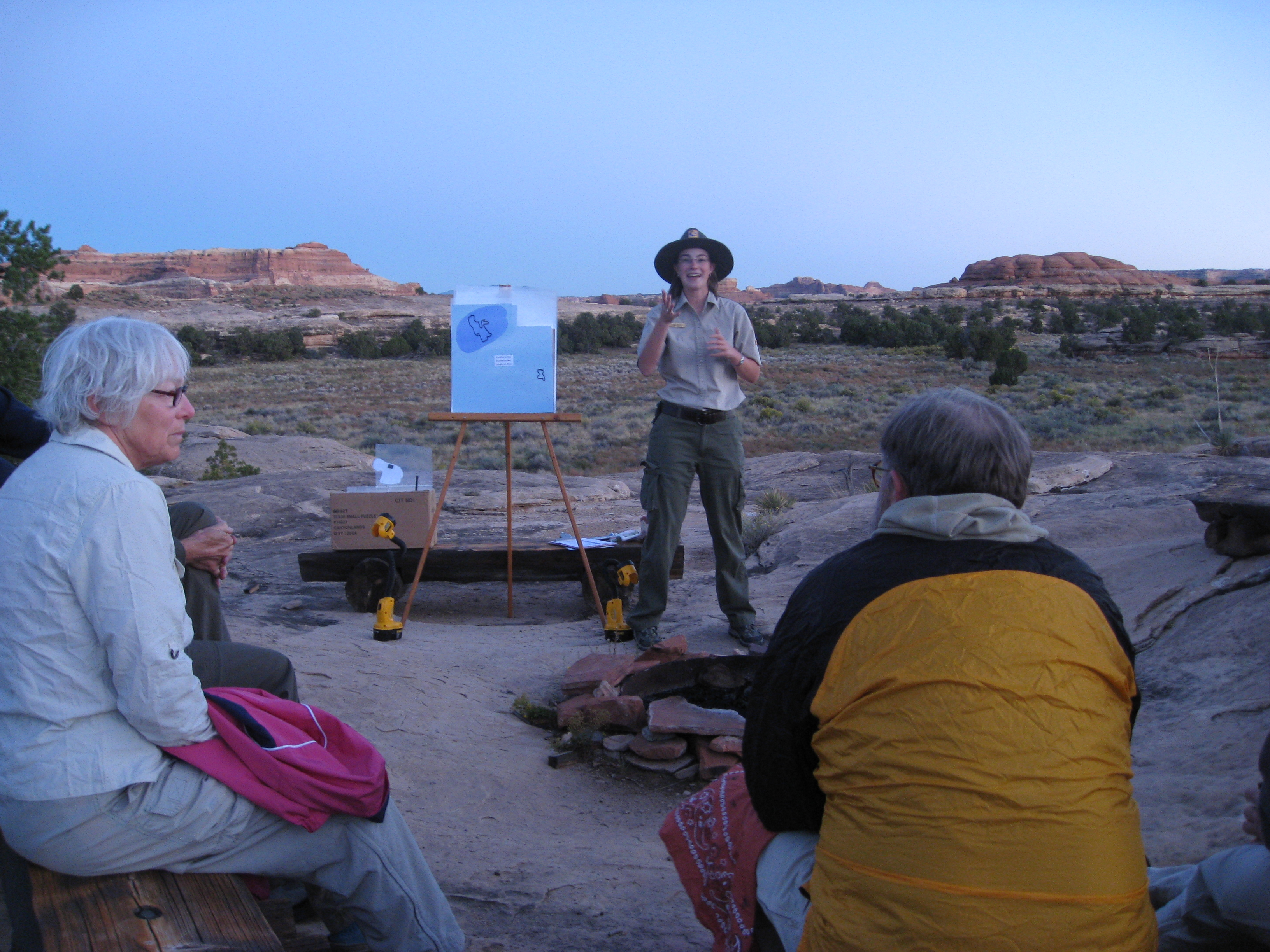 This was a great talk on geology of Canyonlands Park that this intern put together. I find the ranger talks at National Parks to usually be quite entertaining. Campground at Needles District, Canyonlands National Park, Utah, USA gc 676